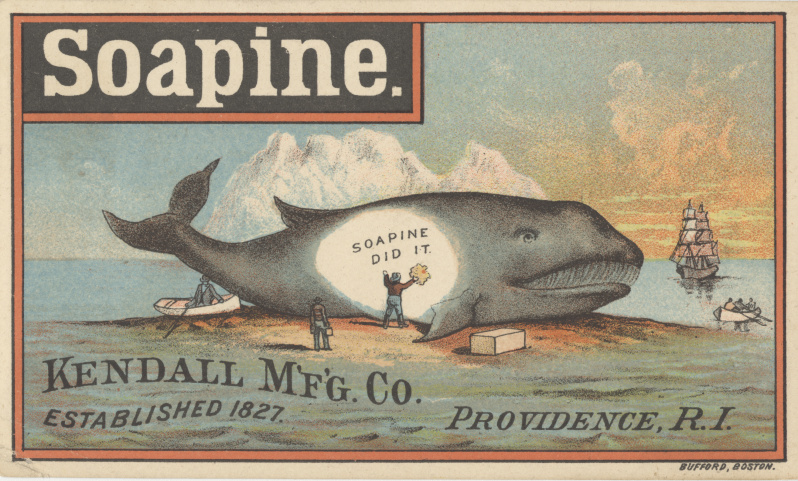 Persistent URL: Subject (TGM): Whales; Whaling; Household soap; Cosmetics & soap; Chemical industry; Grocery stores; Keywords: Soapine French Laundry Soap Victoria Glycerine Soap Toilet soap